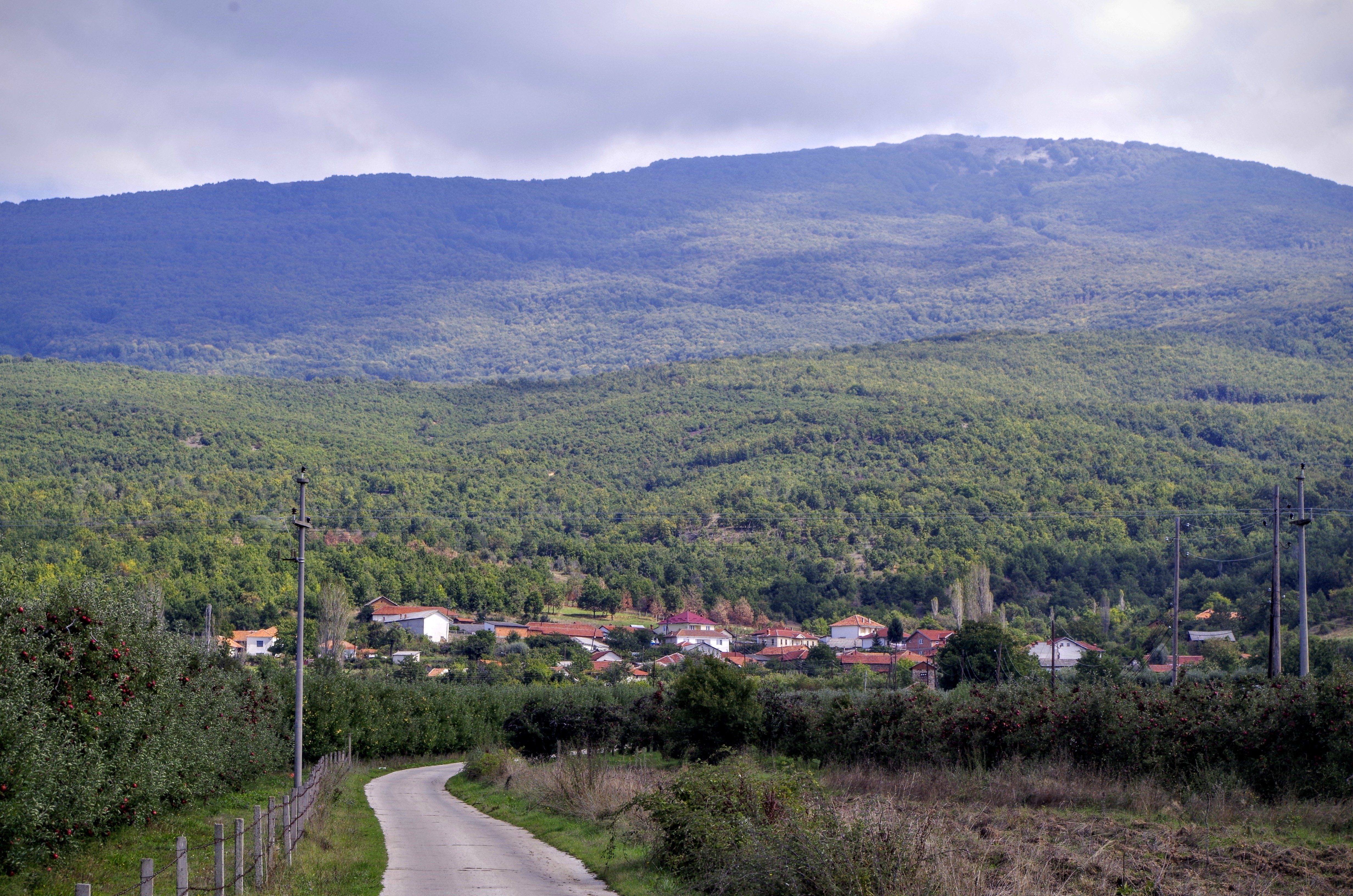 View of the village Rajca